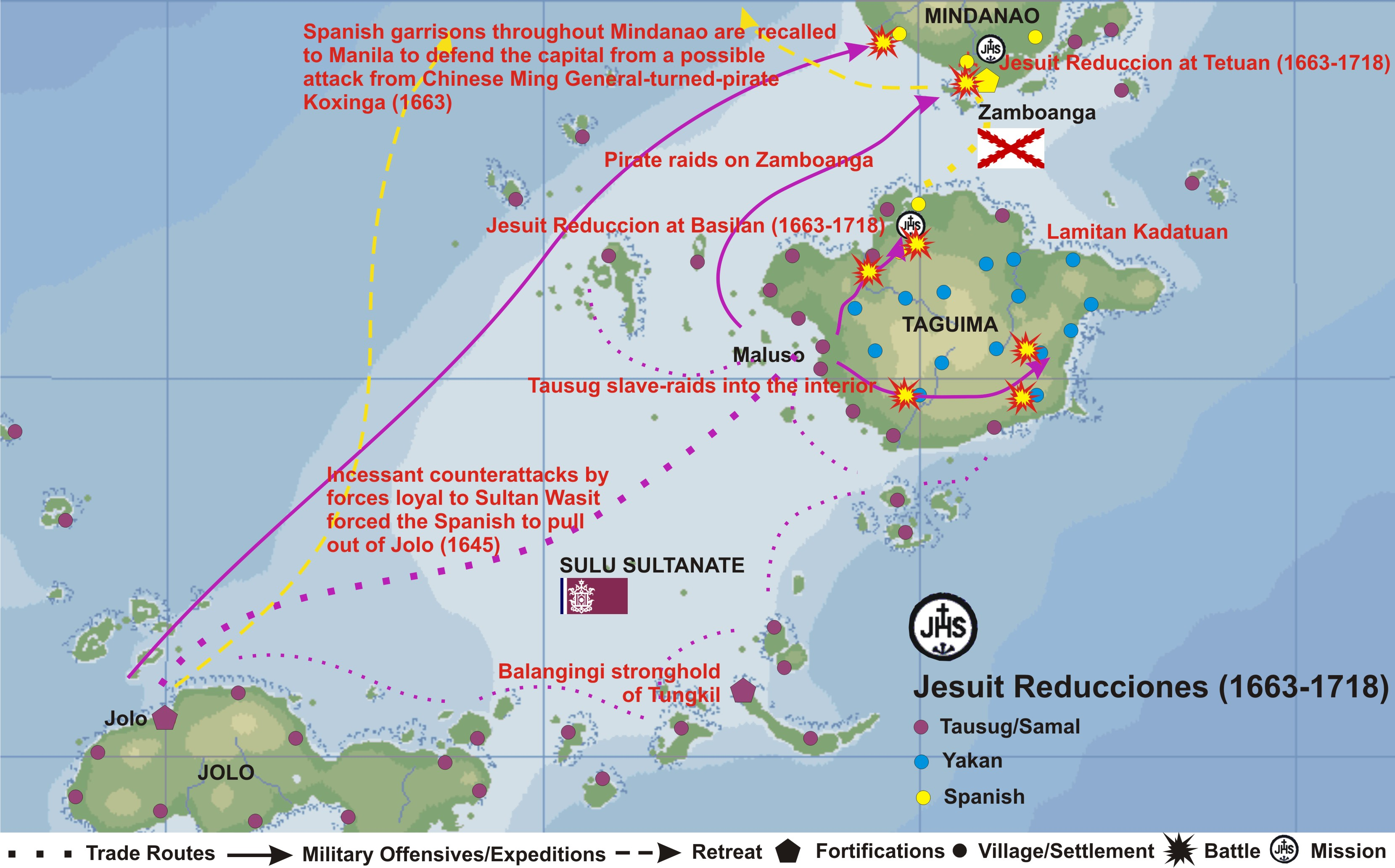 Basilan_Expanded_1663-1718